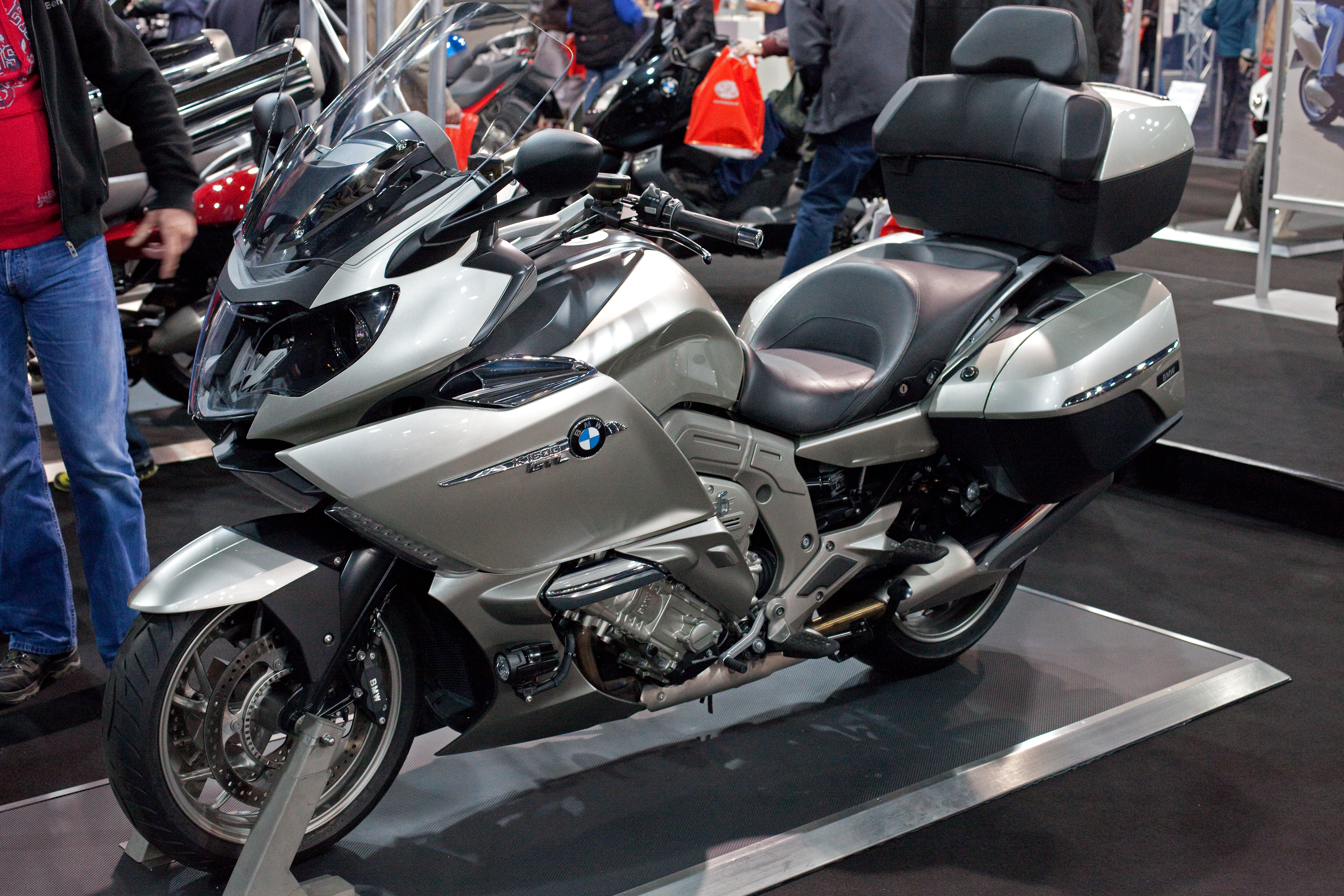 Front three-quarter view of the BMW K1600GTL motorcycle